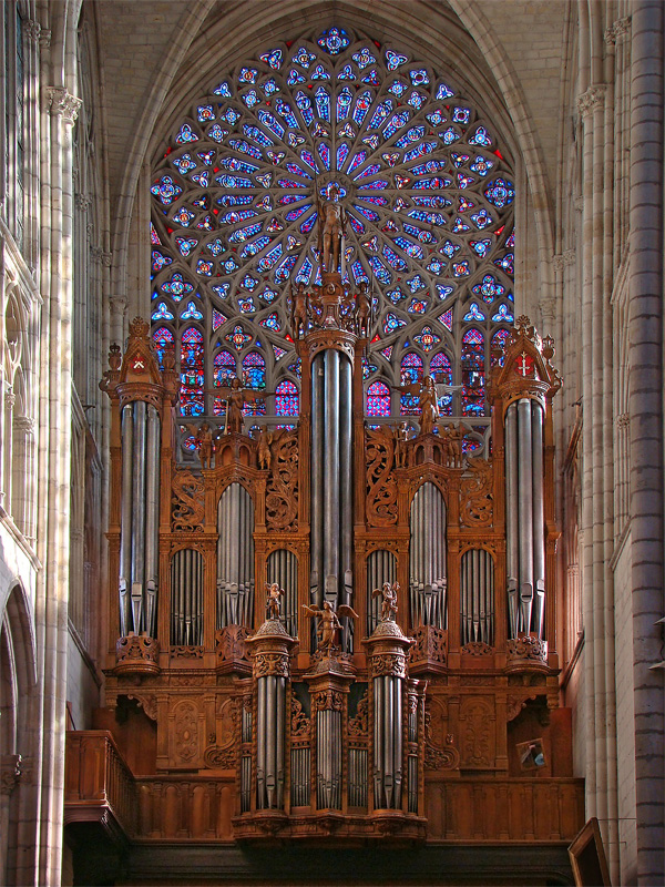 Saint Gatien's Cathedral, Tours, Indre-et-Loire, Centre, France. The 16th Century great organ.